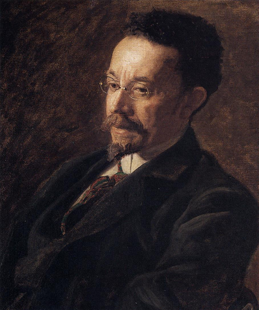 Portrait of Henry Ossawa Tanner (1859-1937)